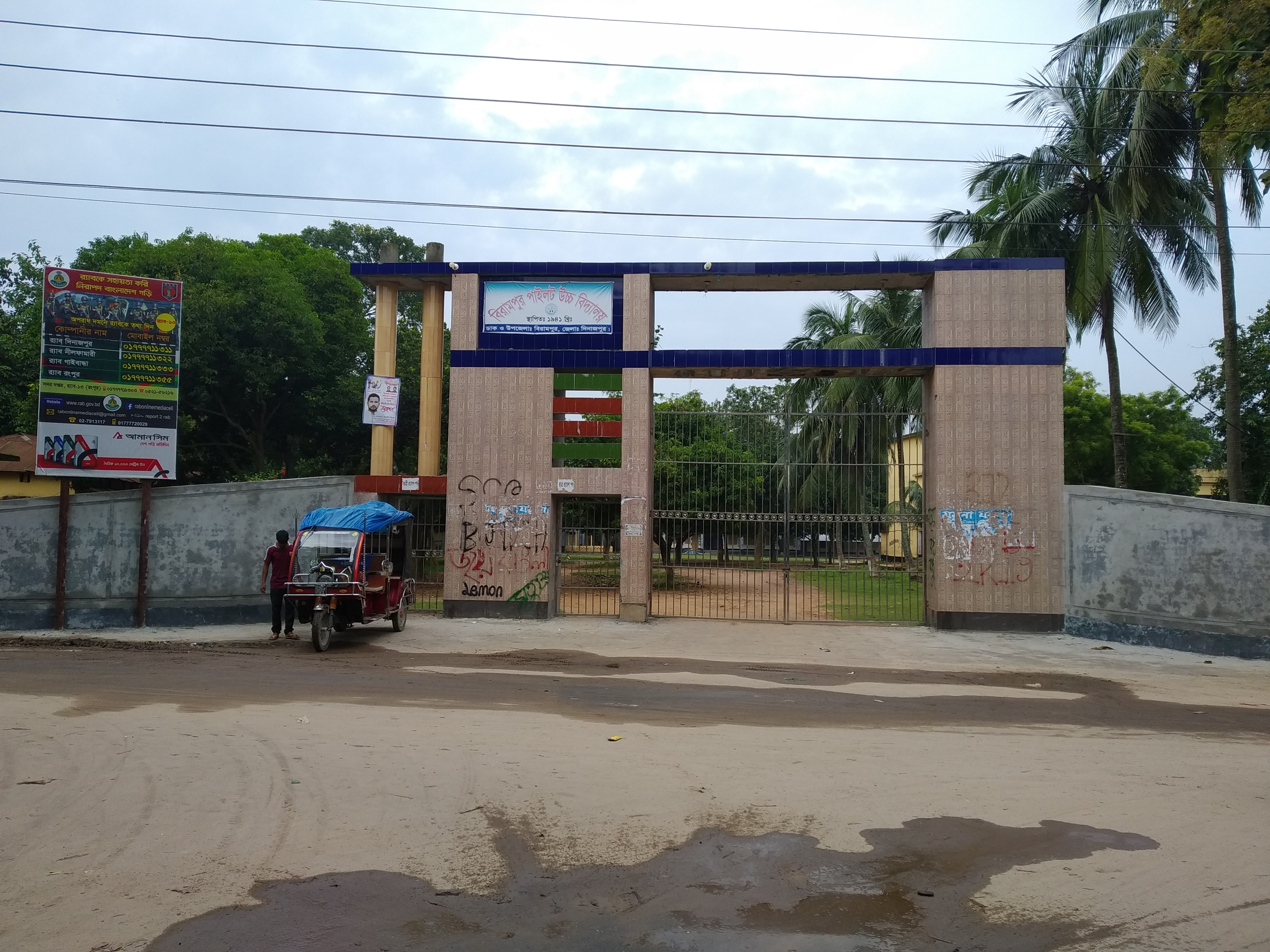 The gate of pilot high school, birampur